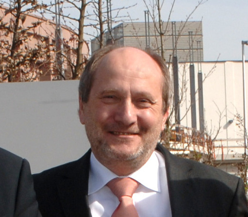 Professor Dr. Ingolf Deubel, Minister of Finance; stand by the newly dedicated monument that dubs Ramstein Air Base as the new gateway to Europe, which was previously held by Rhein-Main Air Base.